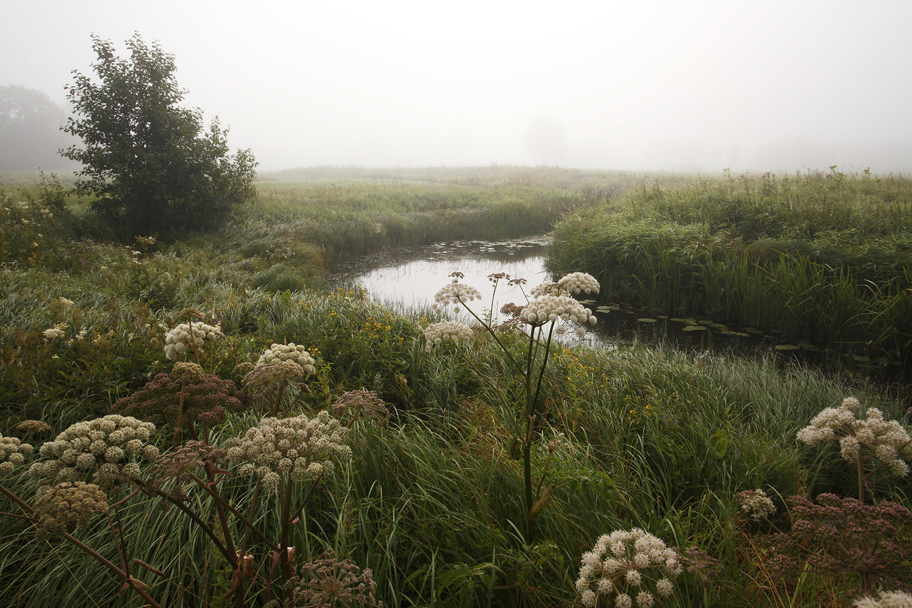 Mädara jõe lopsakad kaldad, Mädara küla